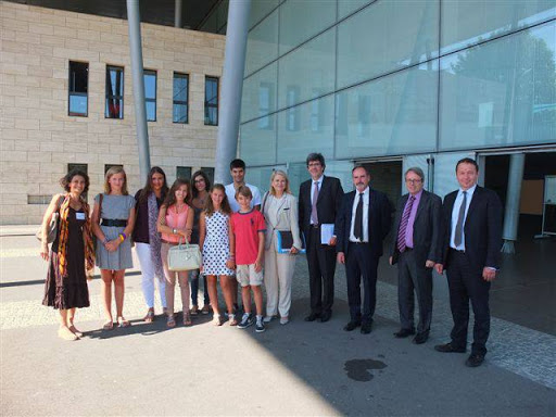 fgeargaer tw